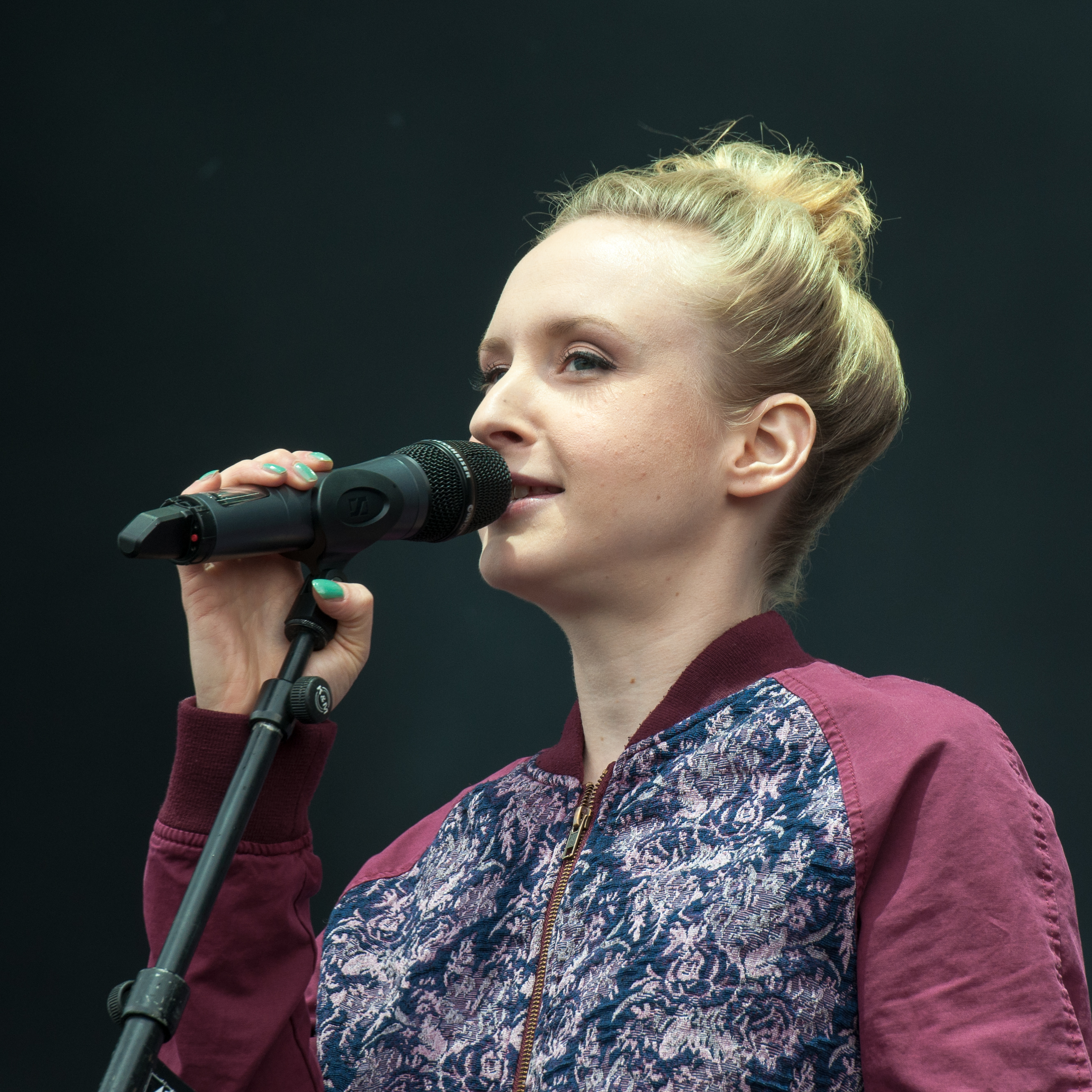 Leslie Clio at Rock am Ring 2013